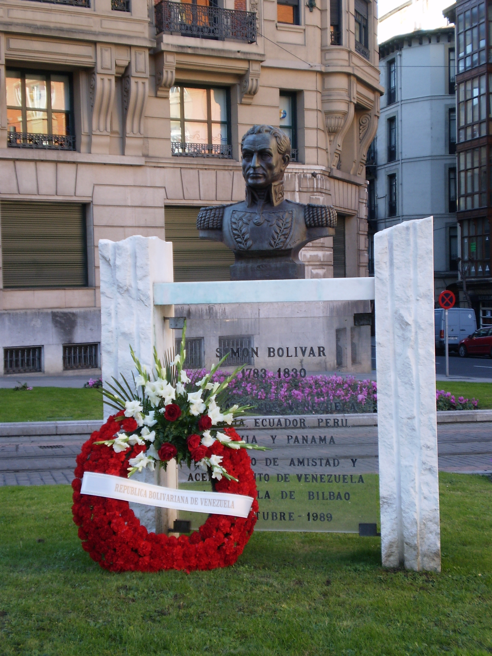 Monument to Simon Bolivar, with flowers of Venezuela Government, at Venezuela square of Bilbao.